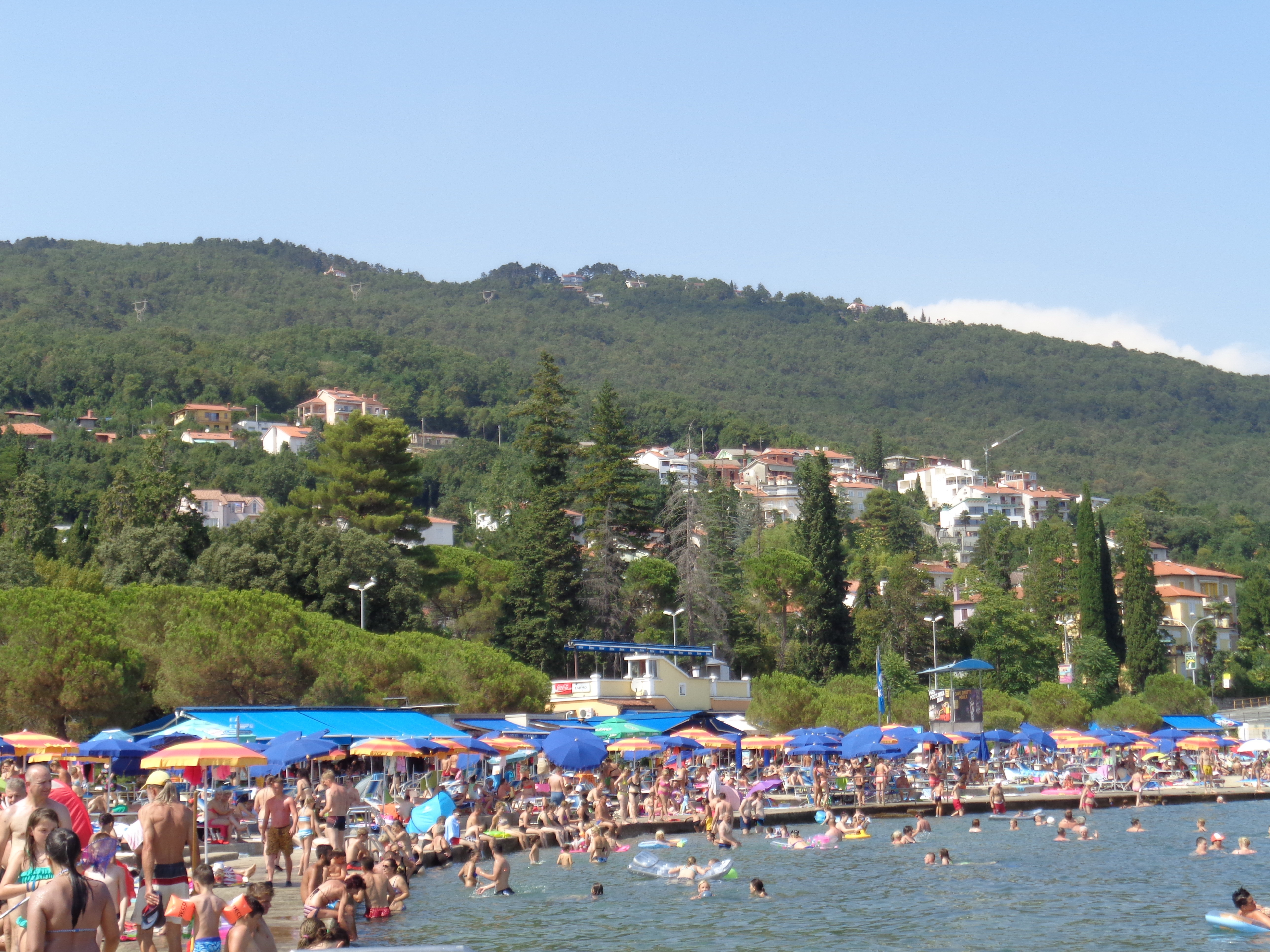 Ičići, Primorje-Gorski Kotar County, Croatia - bathers